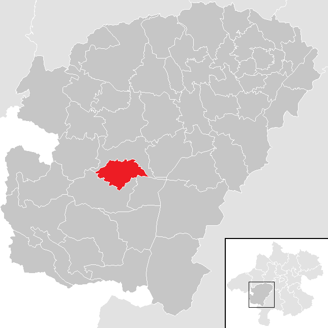 District Vöcklabruck